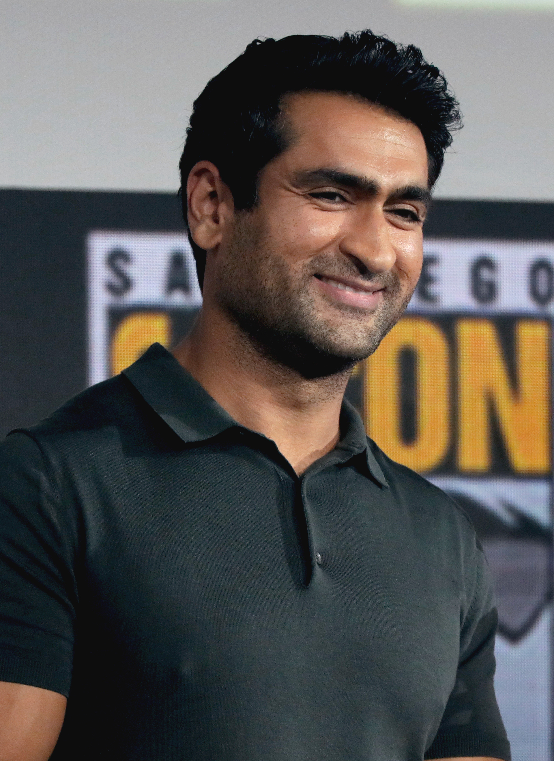 Kumail Nanjiani speaking at the 2019 San Diego Comic-Con International in San Diego, California.